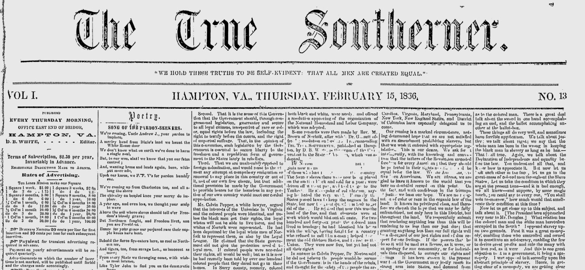 Front page of the True Southerner, the first African-American newspaper in Virginia, for the week of February 15, 1866. Later in the year, a white mob destroyed the printing press.